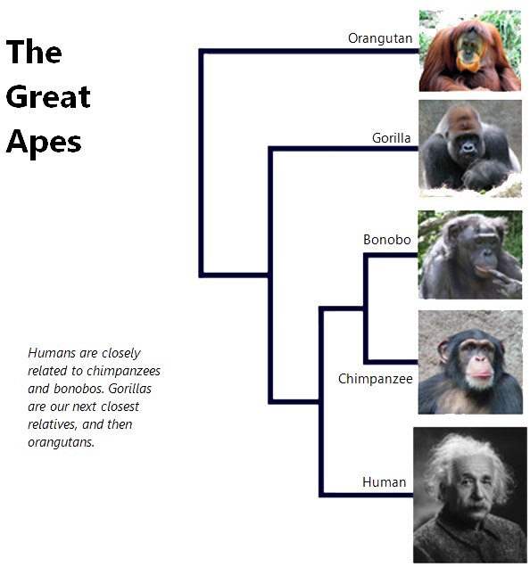 This image shows the relationships between the great apes. Humans are closely related to chimpanzees and bonobos. Gorillas are our next closest relatives, and then orangutans.